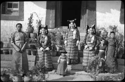 The Tsarong family on the front steps of their house near Lhasa. The women of the family are wearing elaborate head dresses, gau and other ornamental jewellery befitting their aristocratic status